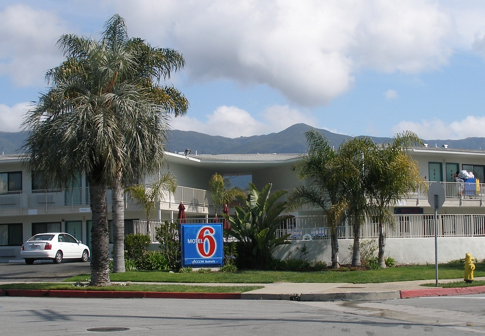 Motel 6 No. 1, which opened in 1962 in Santa Barbara, California. It is still in business today. Photographed on April 1, 2006 by user Coolcaesar.